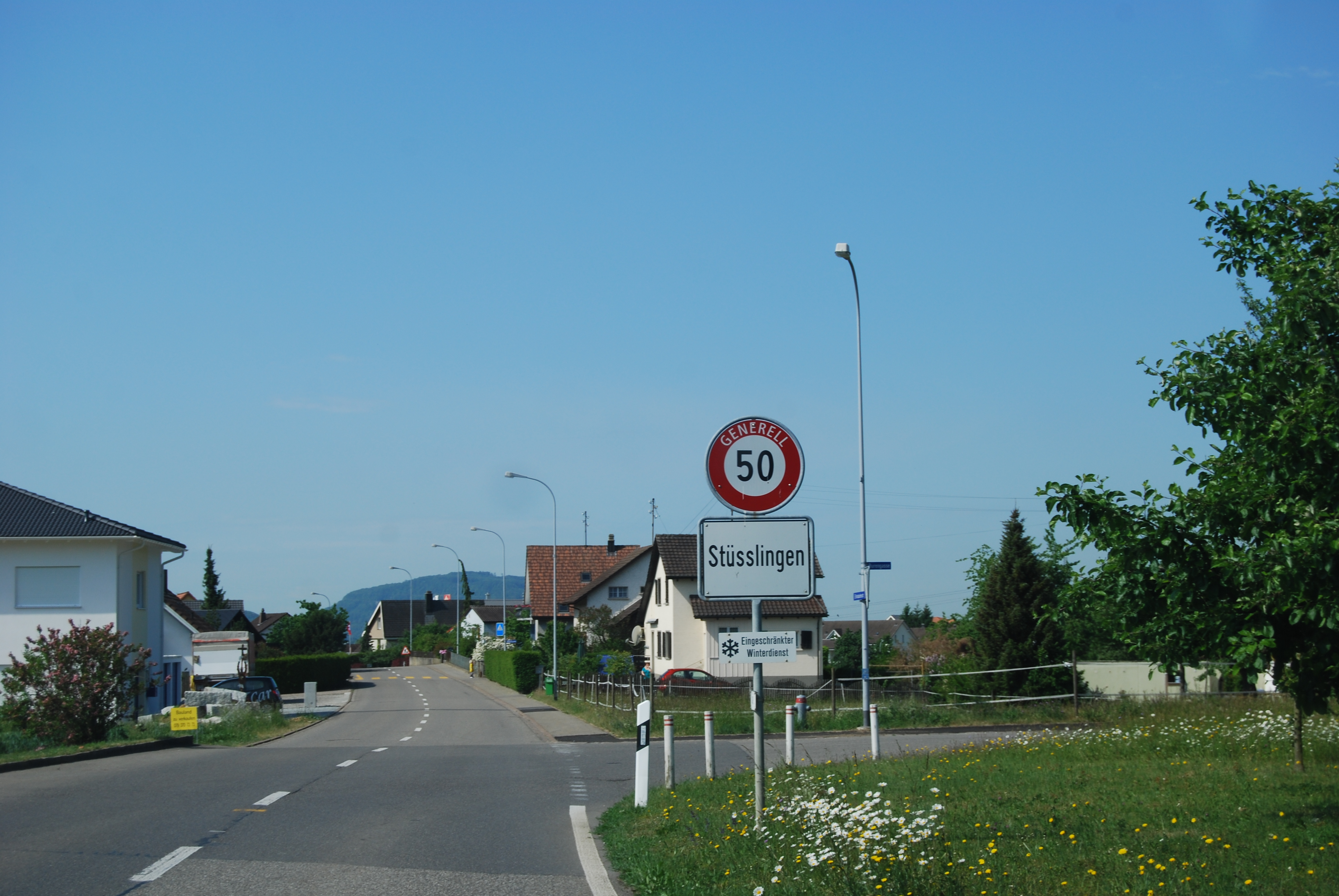 Stüsslingen, canton of Solothurn, Switzerland